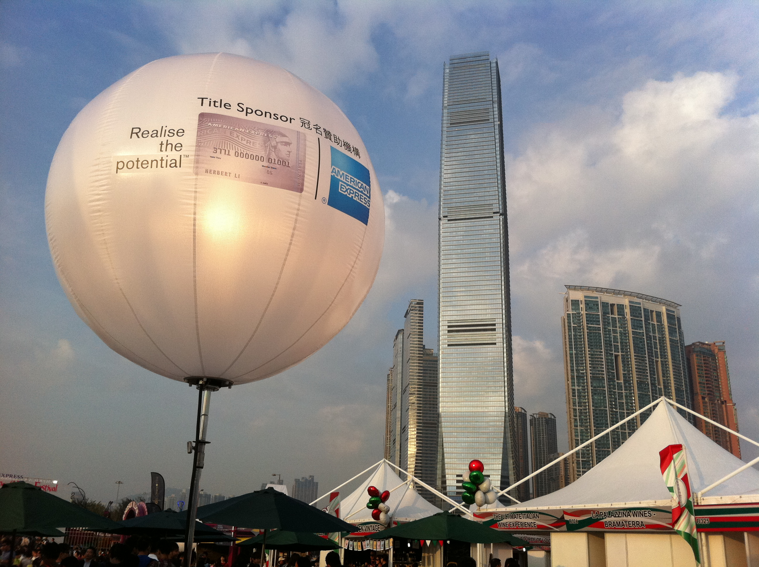 Hong Kong Wine and Dine Festival, 2012 香港美酒佳餚巡禮, West Kowloon Waterfront Promenade, Hong Kong